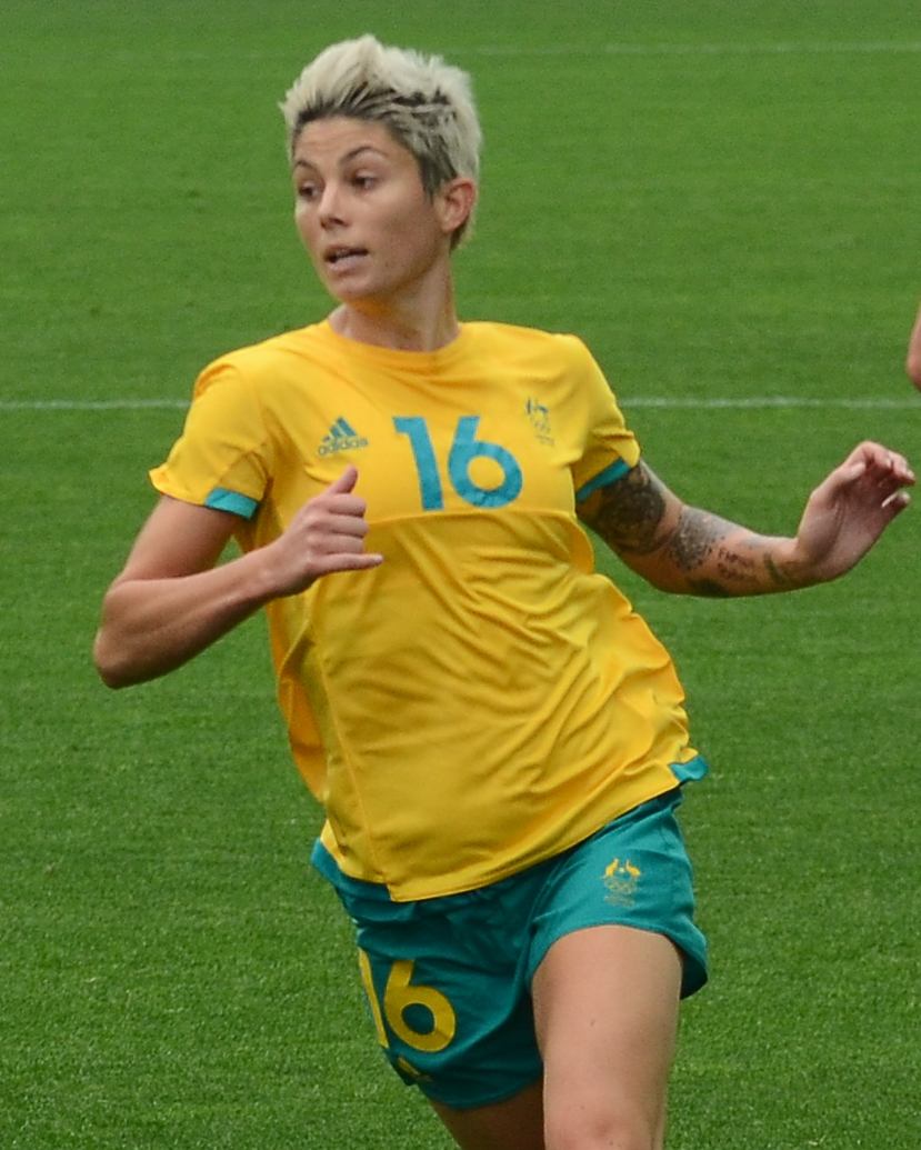 Canada versus Australia at the 2016 Summer Olympics, 3 August 2016.